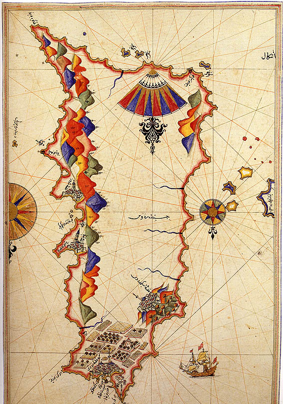 Island of Rhodes in Greece on the Kitab-ı Bahriye (Book of Navigation) of Piri Reis